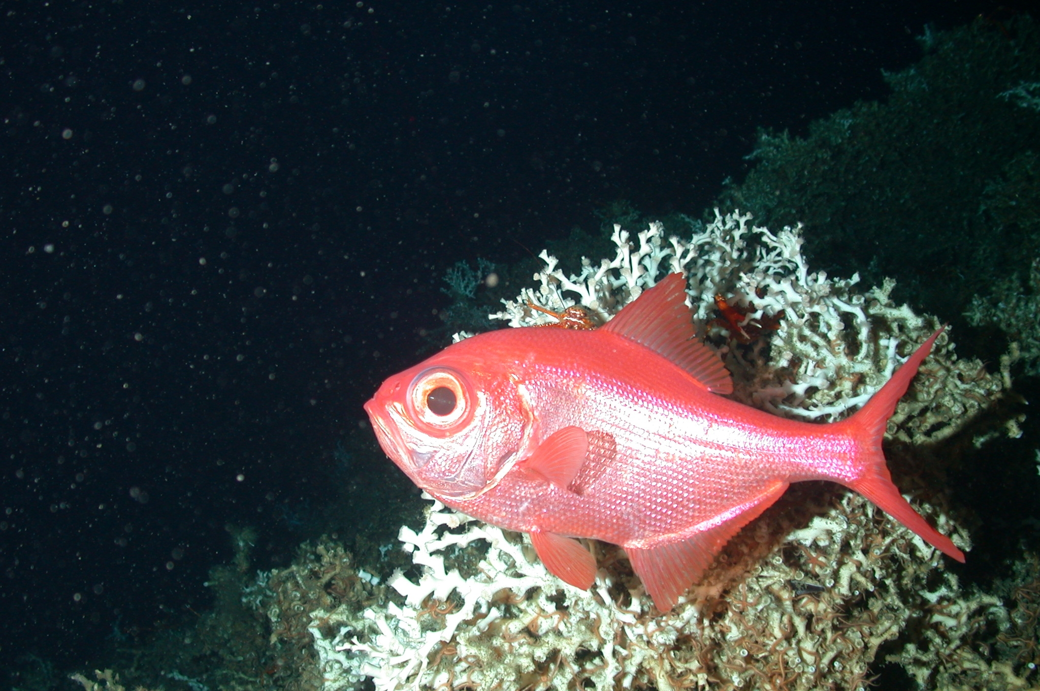 Beryx decadactylus (alfonsino) hovering around a large Lophelia coral. Many fishes use the deep coral habitat in a similar way as fishes in shallow coral systems, and this is a major focus of our research. Image ID: expl0431, Voyage To Inner Space - Exploring the Seas With NOAA Collect Location: North Carolina Continental Slope Photographer: Dr. Ken Sulak, USGS Credit: Life on the Edge 2004 Expedition: NOAA Office of Ocean Exploration